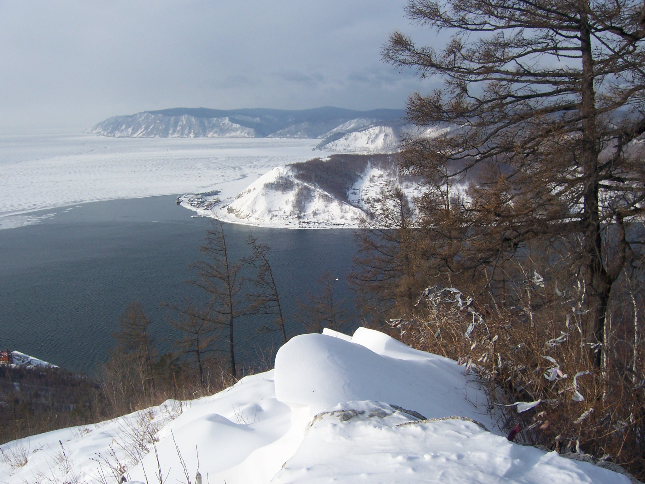 View on River Angara with the Shaman Stone and on Lake Baikal from Chersky Stone. Trees are Larix × czekanowskii (natural hybrid L. sibirica × L. gmelinii).